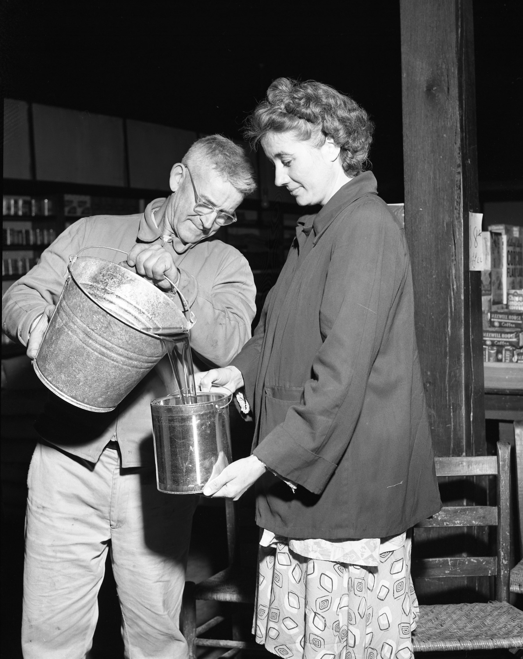 Collection Name: Commerce and Industrial Development Photograph Collection Photographer/Studio: Massie, Gerald R. Description: Man pours syrup into canister held by a woman. Coverage: United States – Missouri – Perry - Yount Date: Not dated. Rights: Copyright is in the public domain. Credit: Courtesy of Missouri State Archives Image Number: CID_001_043 Institution: Missouri State Archives